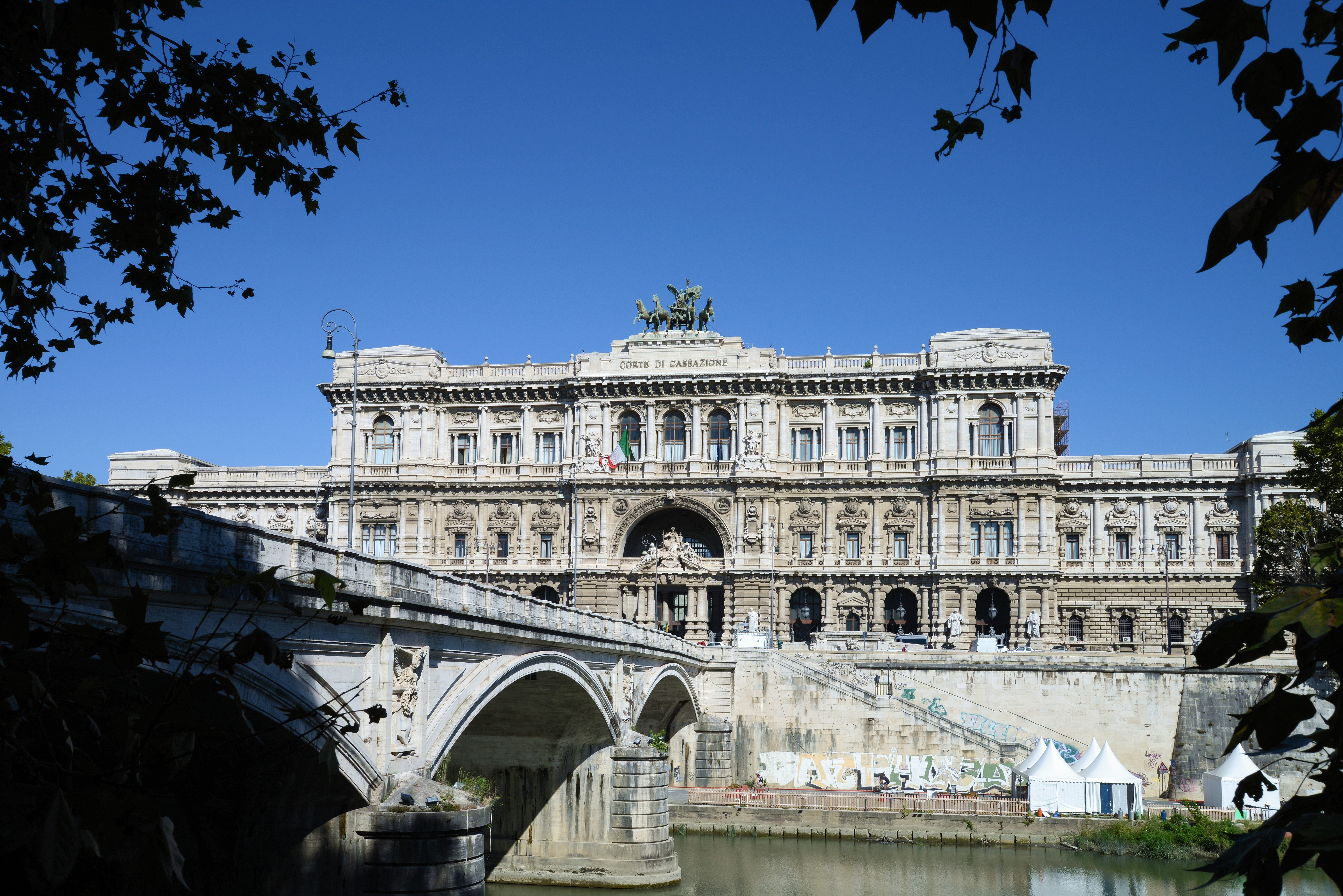 The Palace of Justice in Rome (Corte di Cassazione)